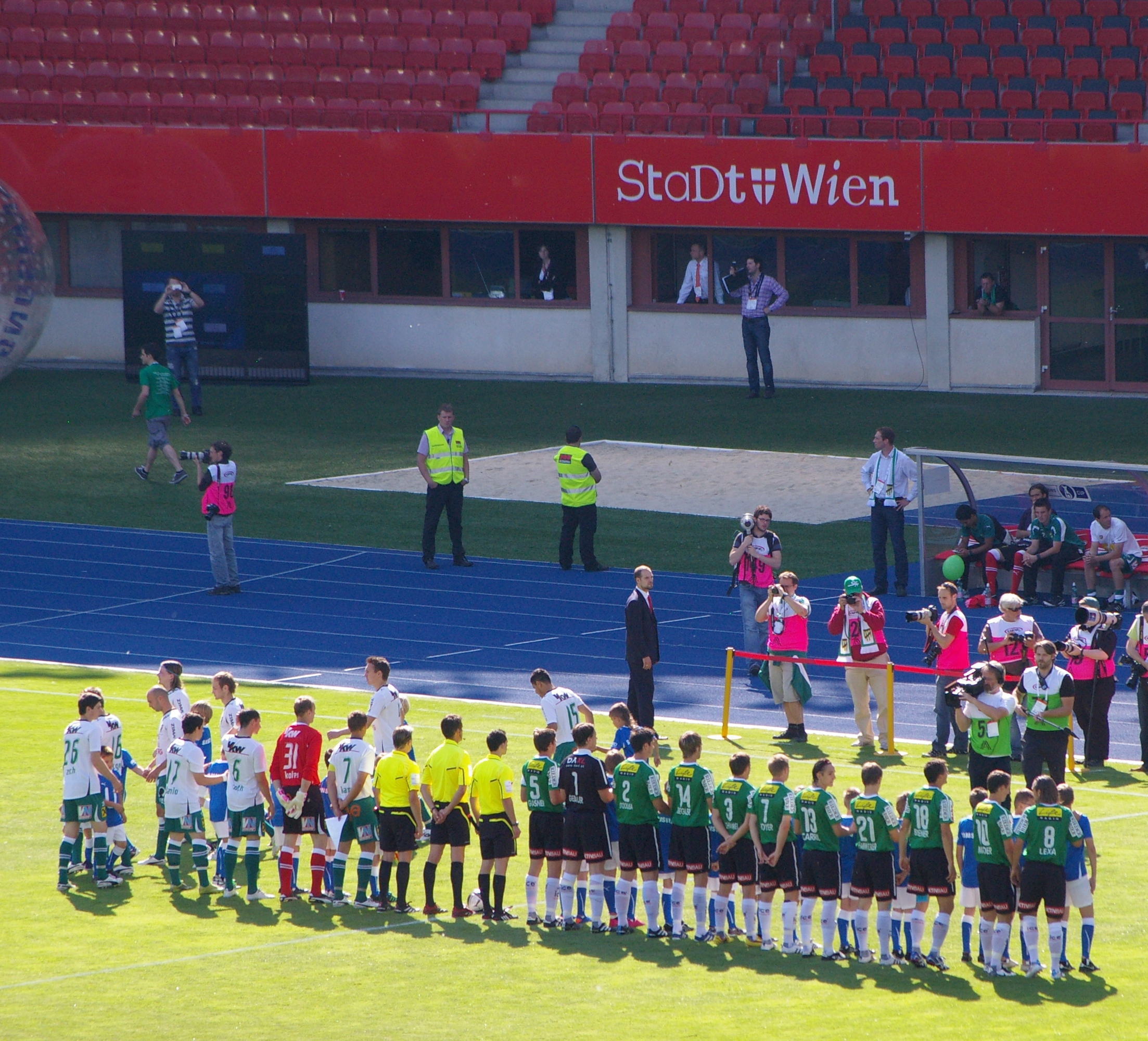 Austrian Cup Final 2011